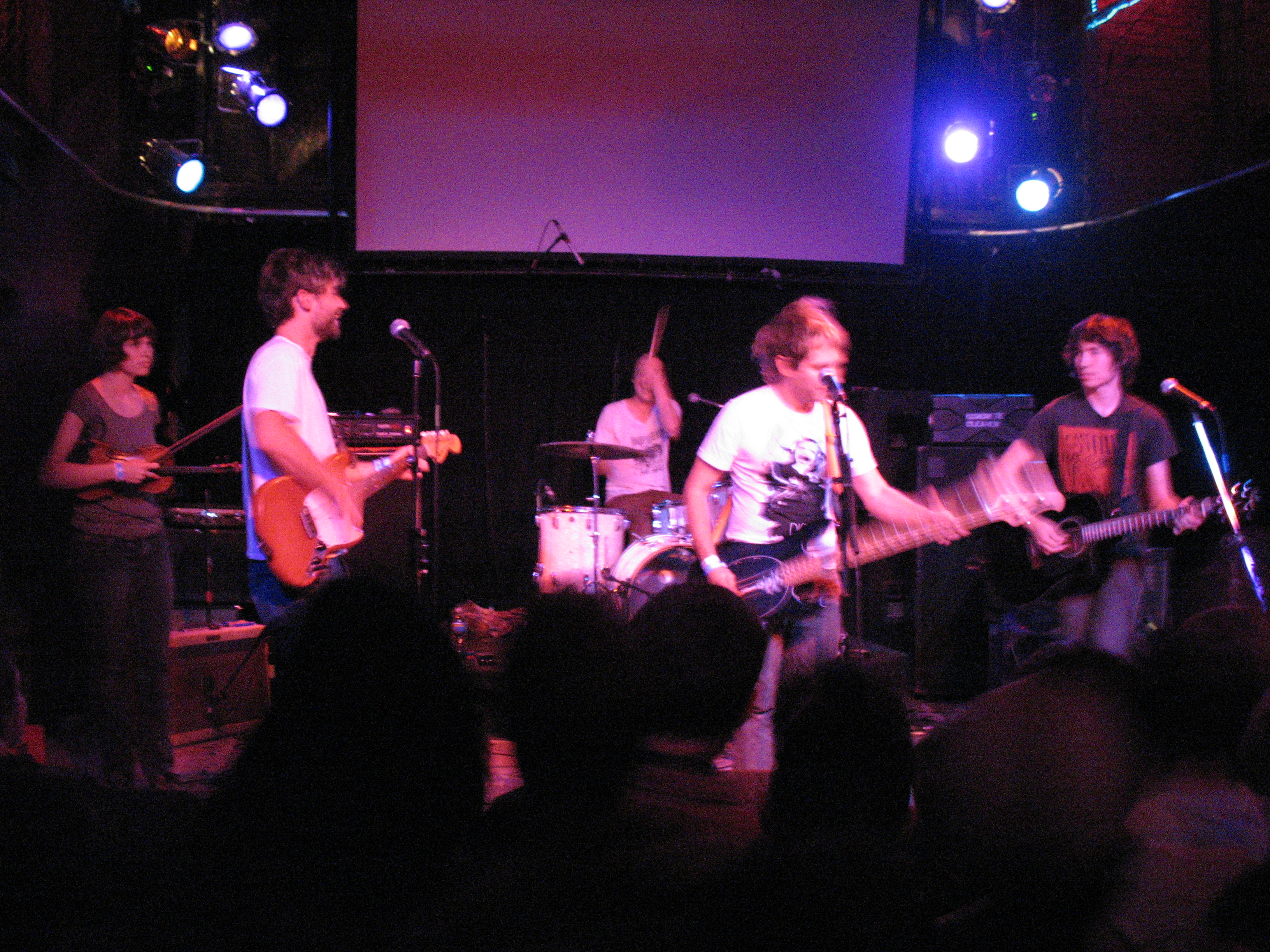 Defiance, Ohio playing in Chicago at Reggie's Rock Club on 5/02/09, the song was Response to Griot.